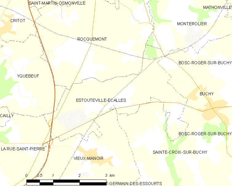 Map of French municipality Estouteville-Écalles